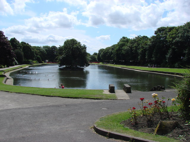 Wilton Park Lake, seen from the main driveway into the park.